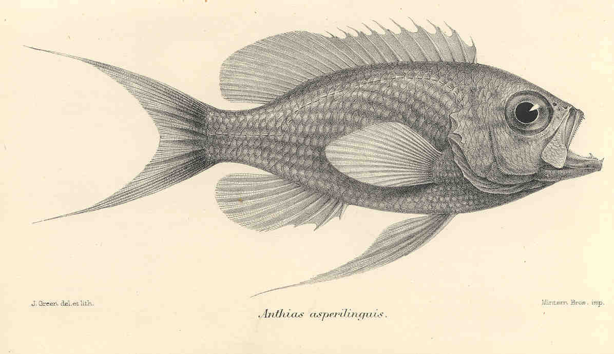 Anthias asperilinguis Subject: Anthias asperilinguis Tag: Fish